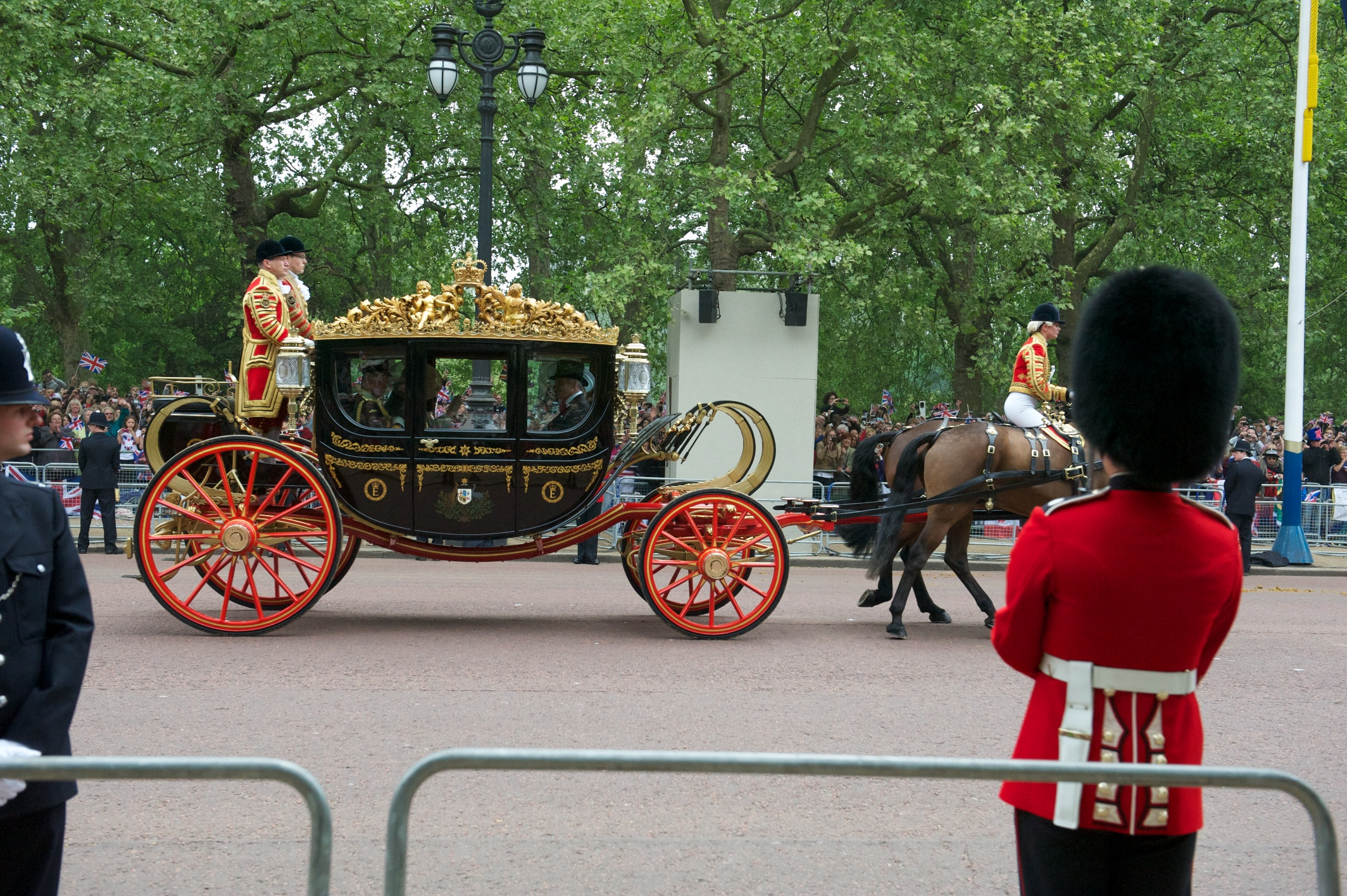 The carriage carrying the parents of Prince William of Wales and Kate Middleton from the marriage ceremony.